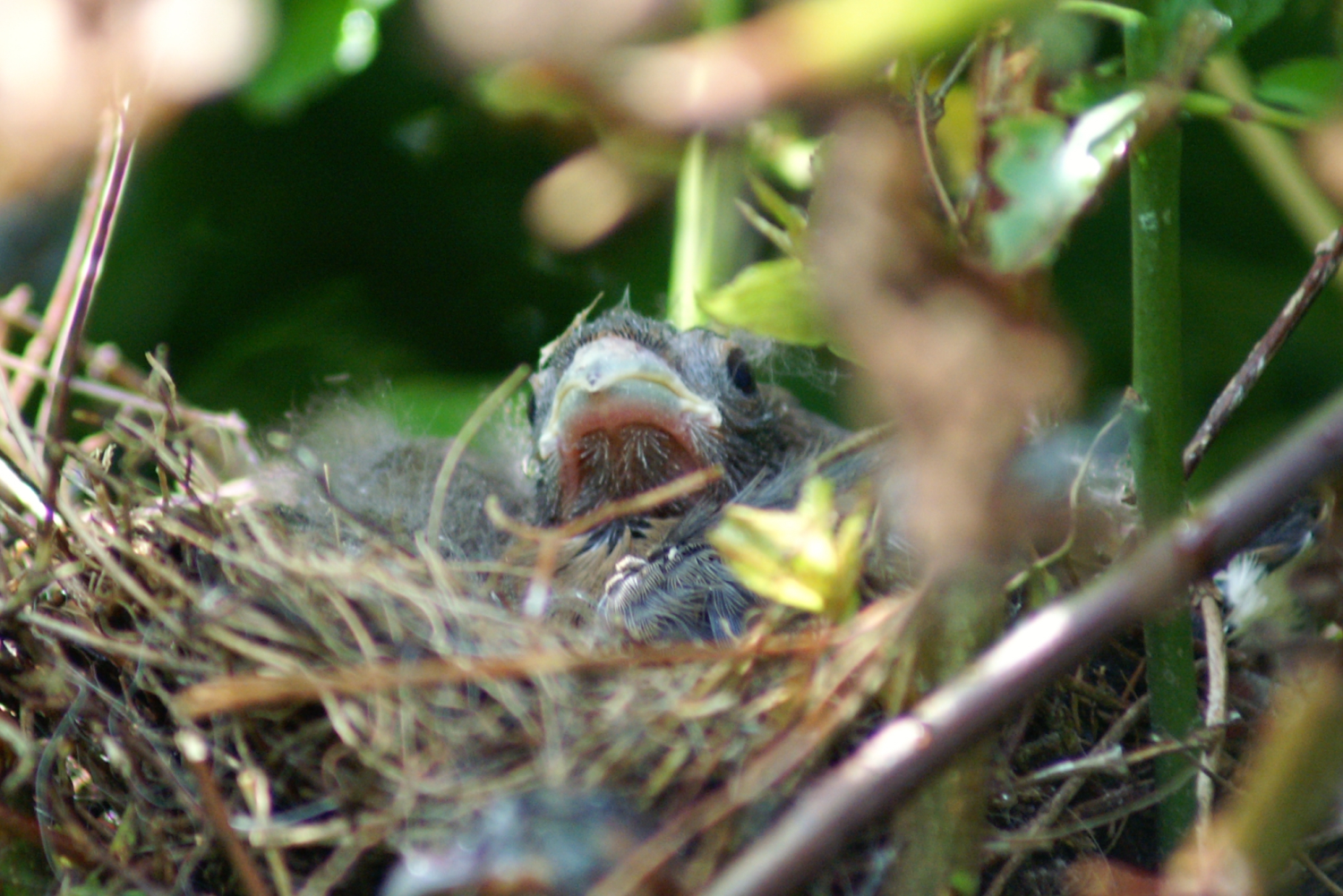 Young Eurasian bullfinch (Pyrrhula pyrrhula) in its nest